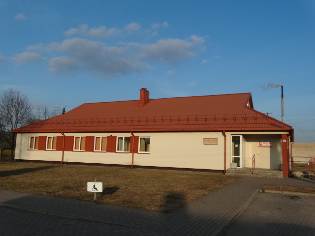 Šimkaičiai, community house, Jurbarkas district, Lithuania